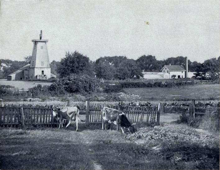 This photograph from a book published in 1899 is entitled "Pastoral scene at Winfield, on the road from Long Island City to Flushing." In that year Winfield was a neighborhood in eastern Woodside. Between 1854, when it was founded, and 1898 it was sometimes joined with Woodside as "Woodside-Winfield" and sometimes considered to be a separate neighborhood. The place known as "suicide's paradise" lay on the border between the two villages. The photo shows that Woodside retained some portion of its rural character even at the end of the 19th century.